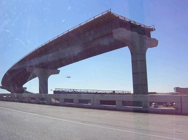 New overpass construction along Tampa's Veterans Expressway.